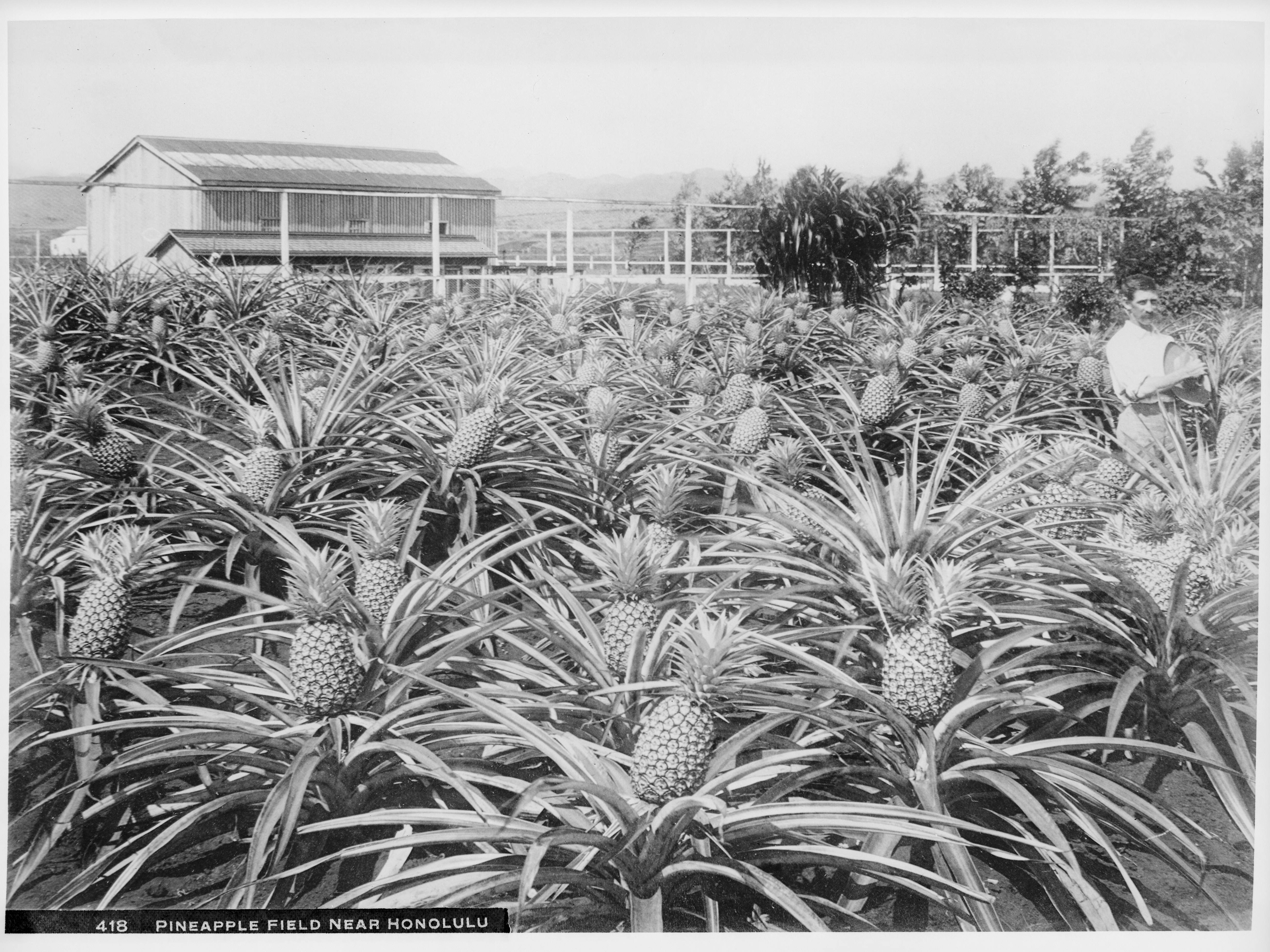 Pineapple field near Honolulu, Hawaii, 1907 Photograph of pineapple field near Honolulu, Hawaii, 1907. A man holding his hat is standing the in the field at right. A farm building is in the background beyond a fence. Pineapples are visible in the field throughout. Call number: CHS-418 Filename: CHS-418 Coverage date: 1907 Part of collection: California Historical Society Collection, 1860-1960 Format: glass plate negatives Type: images Part of subcollection: Title Insurance and Trust, and C.C. Pierce Photography Collection, 1860-1960 Repository name: USC Libraries Special Collections Accession number: 418 Archival file: chs_Volume89/CHS-418.tiff Geographic subject (city or populated place): Honolulu Repository address: Doheny Memorial Library, Los Angeles, CA 90089-0189 Subject (adlf): agricultural sites Geographic subject (country): USA Format (aacr2): 2 photographs : glass photonegative, photoprint, b&w ; 17 x 22 cm. Rights: Digitally reproduced by the USC Digital Library; From the California Historical Society Collection at the University of Southern California Project: USC Repository Contributing entity: California Historical Society Date created: 1907 Publisher (of the digital version): University of Southern California. Libraries Format (aat): photographic prints; photographs Geographic subject (state): Hawaii Legacy record ID: chs-m14366; USC-1-1-1-14036 Access conditions: Send requests to address or e-mail given. Phone (213) 821-2366; fax (213) 740-2343. Subject (file heading): Hawaii -- Agriculture Subject (lcsh): Agriculture